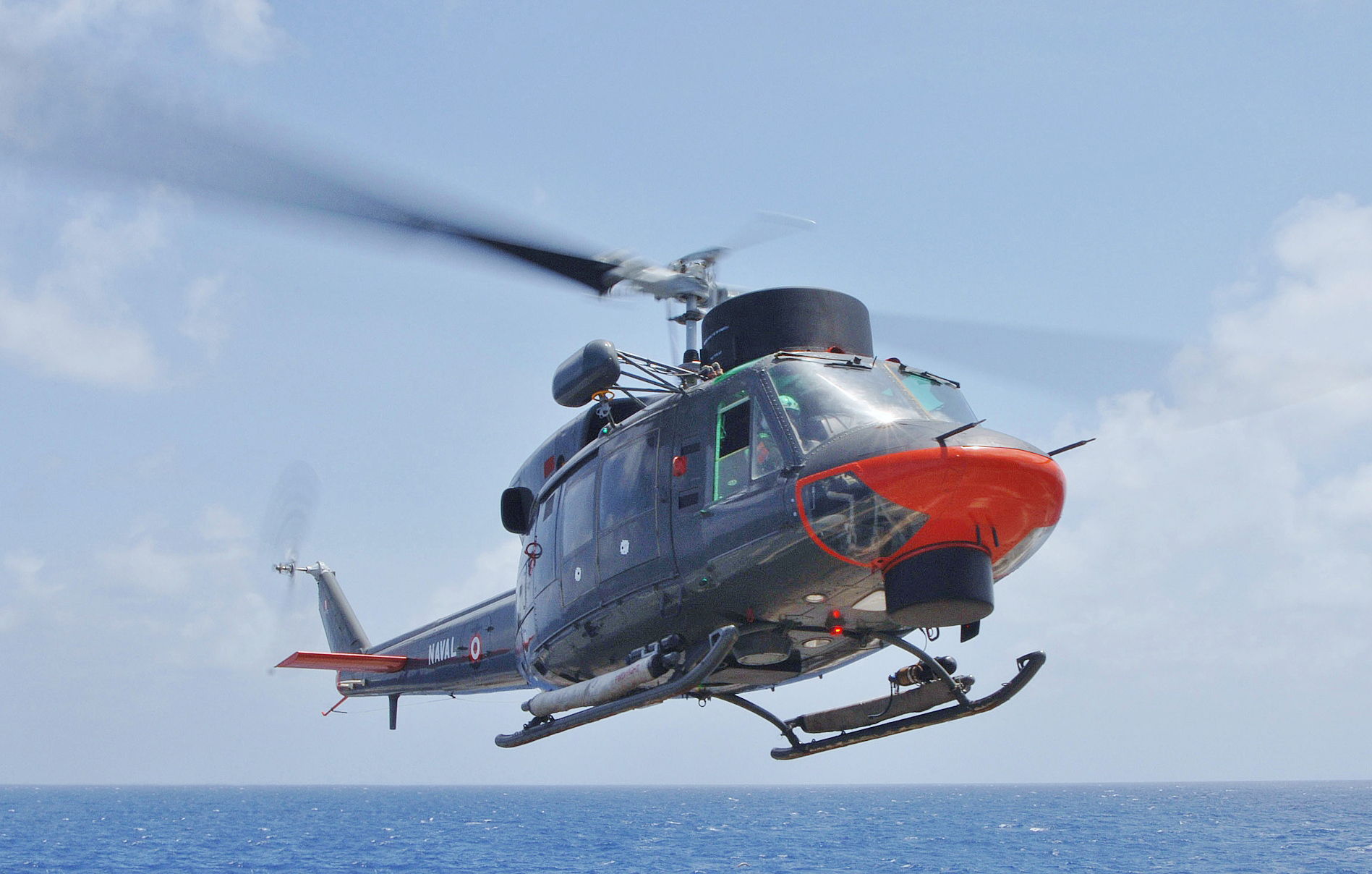 050718-N-4374S-005Caribbean Sea (July 18, 2005) - A Peruvian Agusta AB 212 helicopter approaches the flight deck of the guided missile cruiser USS Thomas S. Gates (CG 51) during a helicopter cross deck training exercise in the Caribbean Sea. Thomas S. Gates is part of a multinational naval and coast guard force from six nations conducting UNITAS 46-05 Pacific Phase off the coasts of Colombia. The Colombian Navy in this year’s UNITAS Pacific Phase hosts Ecuador, Panama, Peru and the United States. During the two-week exercise, participating units have the opportunity to train as unified force in all aspects of naval operations, from maritime interdiction to anti-submarine and electronic warfare. U.S. Naval Forces Southern Command sponsors UNITAS exercises with the objective to foster cooperation and develop interoperability among the navies of the region. U.S. Navy photo by Photographer’s Mate 2nd Class Michael Sandberg (RELEASED)